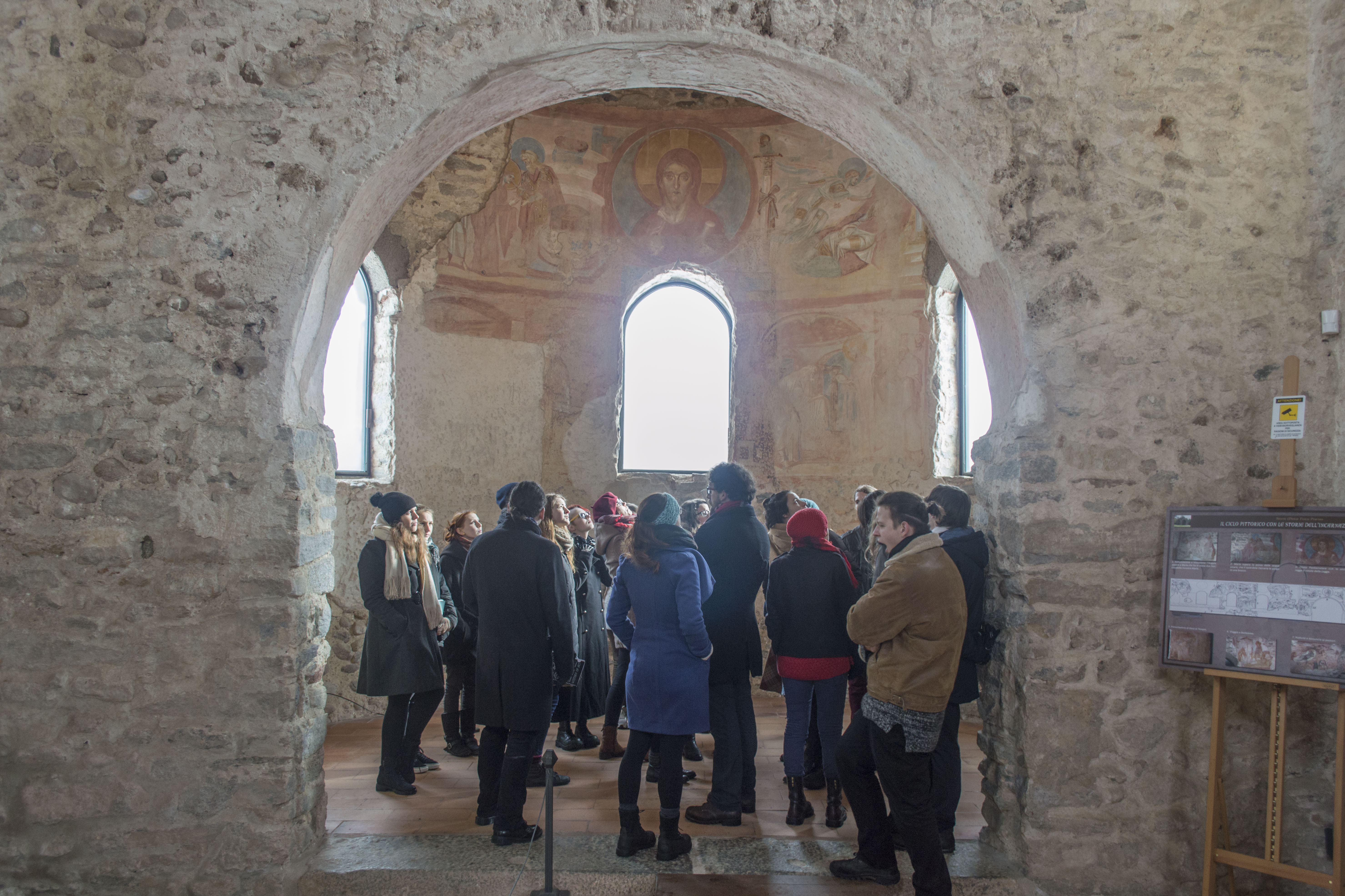 Study trip of students of art history in Brno with doc. Ivan Foletti to Milan and surroundings.